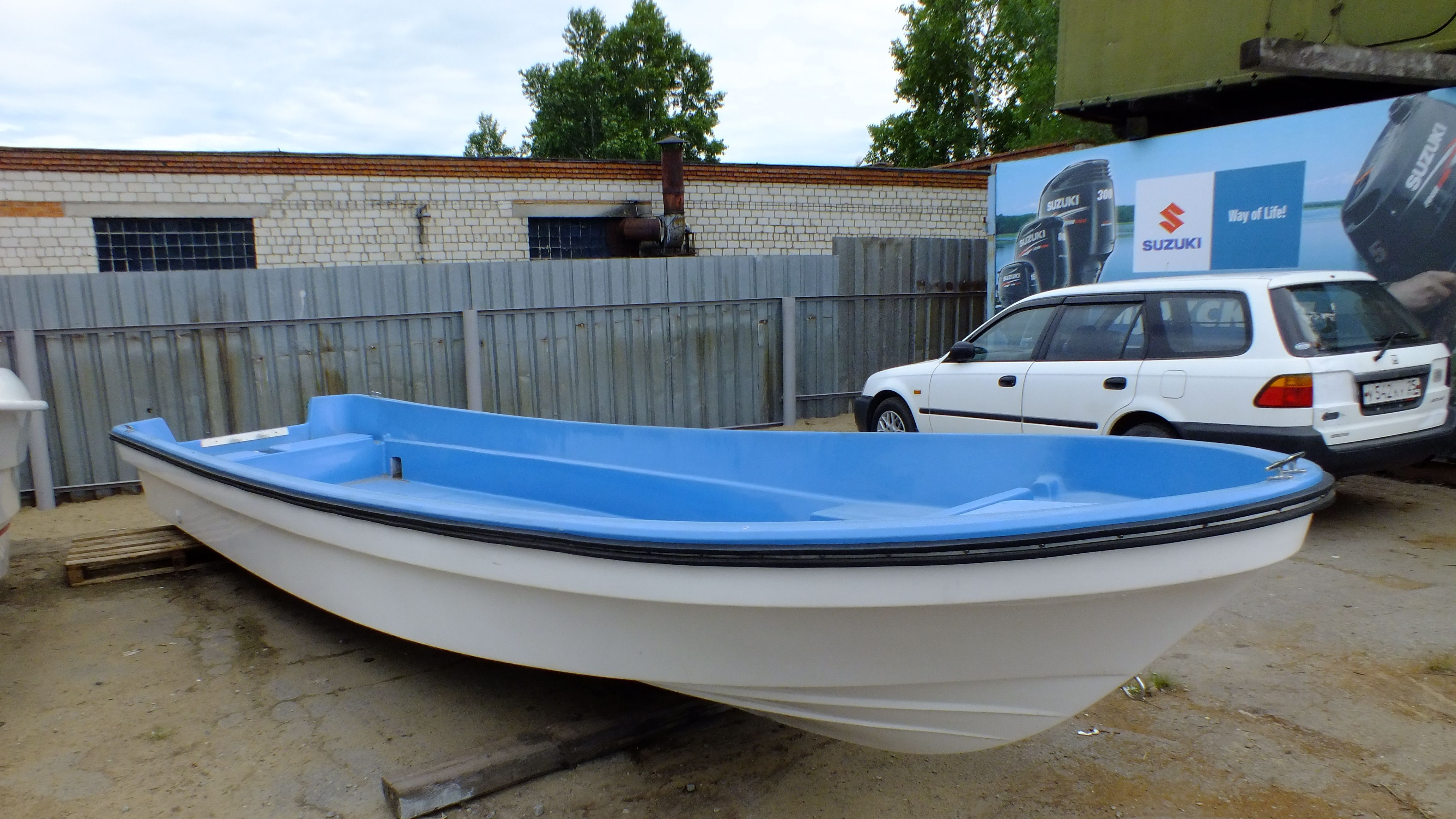 Промысловая лодка типа байдара